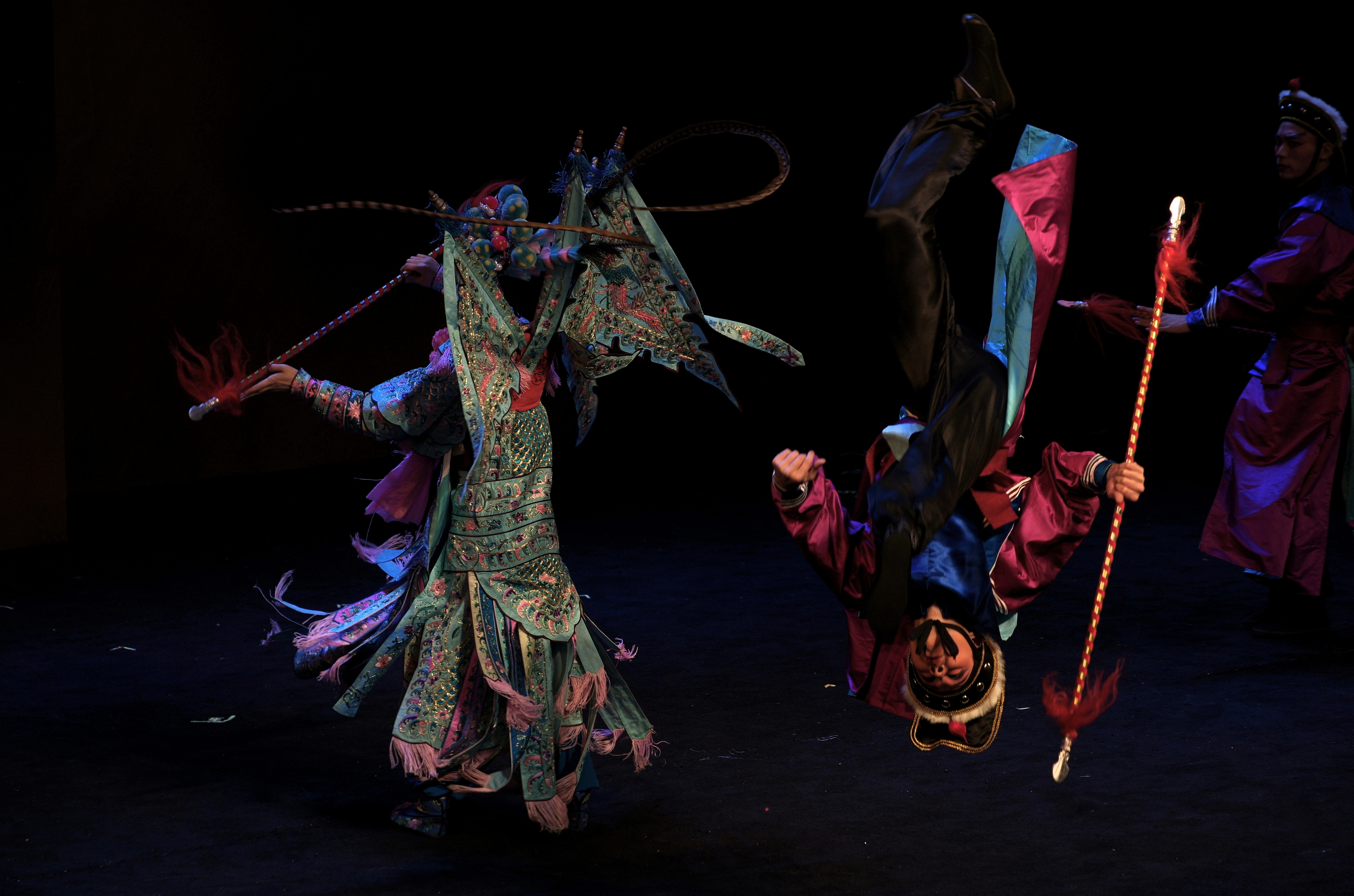 A Shao opera performance of The Limestone Rhyme (石灰吟), a historical play set in the Ming dynasty, in Shanghai